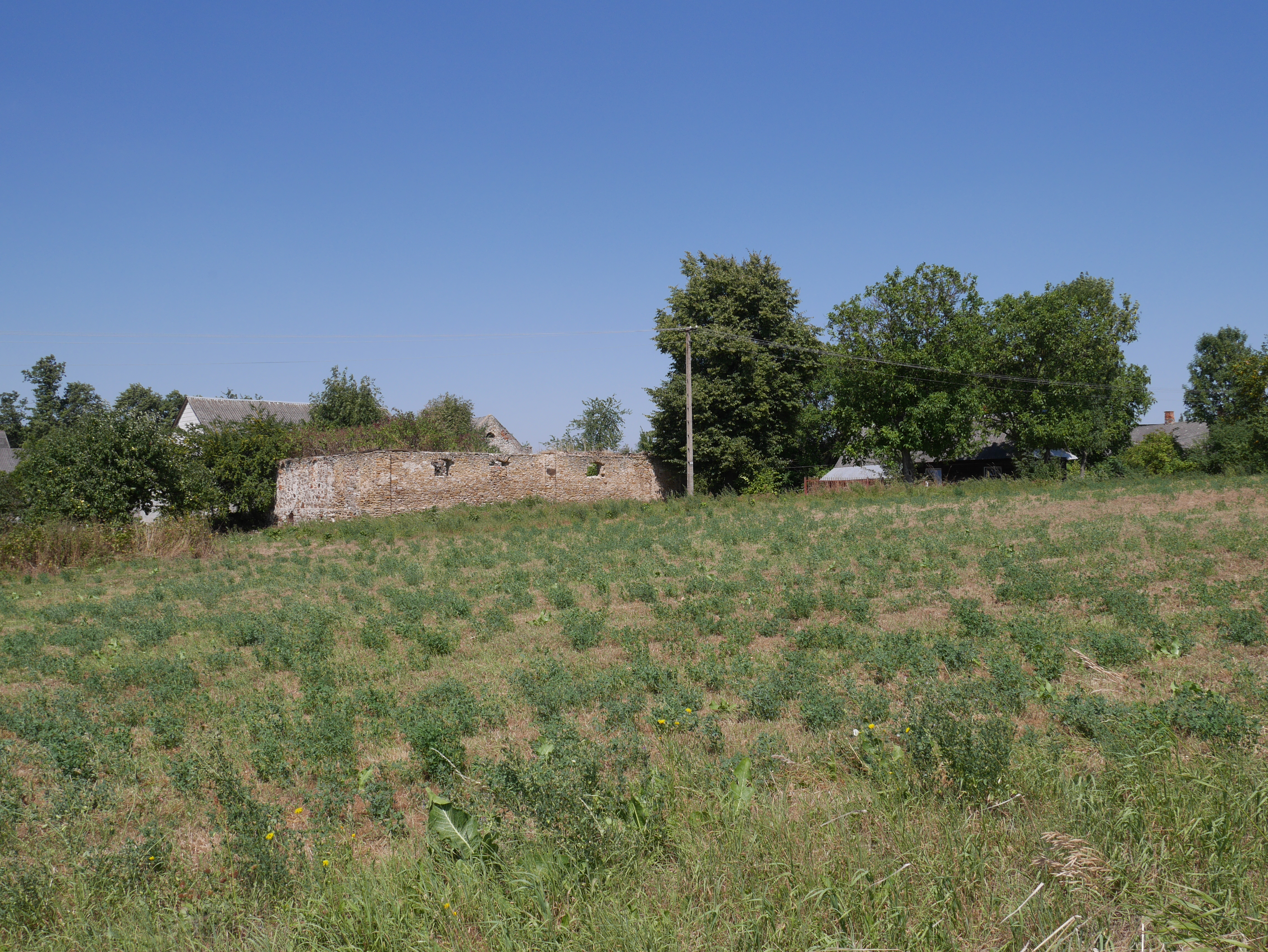 Latifundium in Skrzelczyce